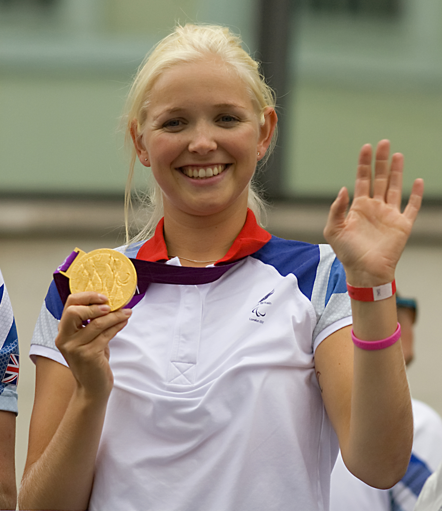 London 2012 Olympic & Paralympic Games Victory Parade, 10th September